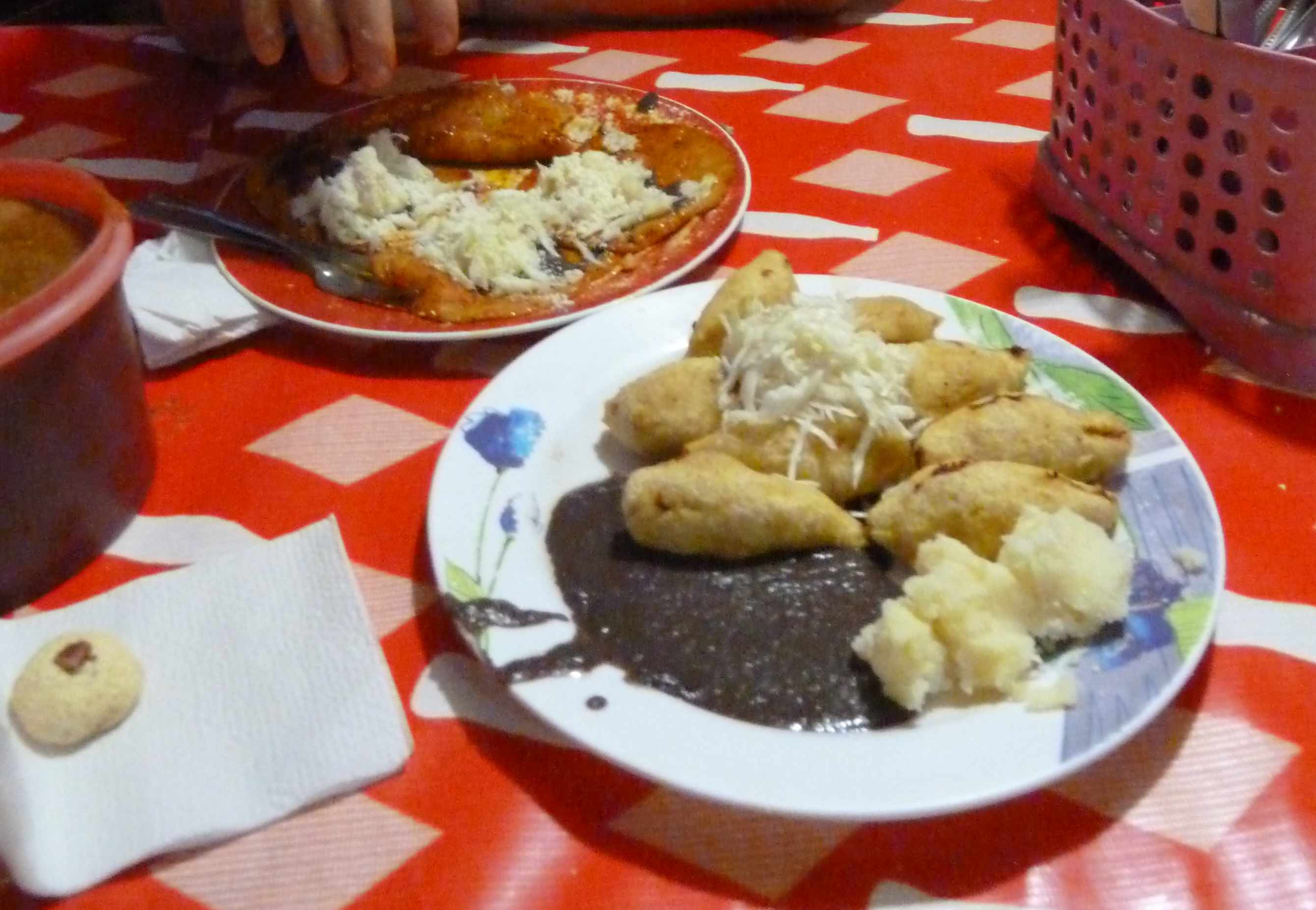 Gastronomía de Papantla: molotes